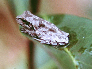 Hyla femoralis (Pine woods treefrog) at Osceola National Forest, Florida, United States